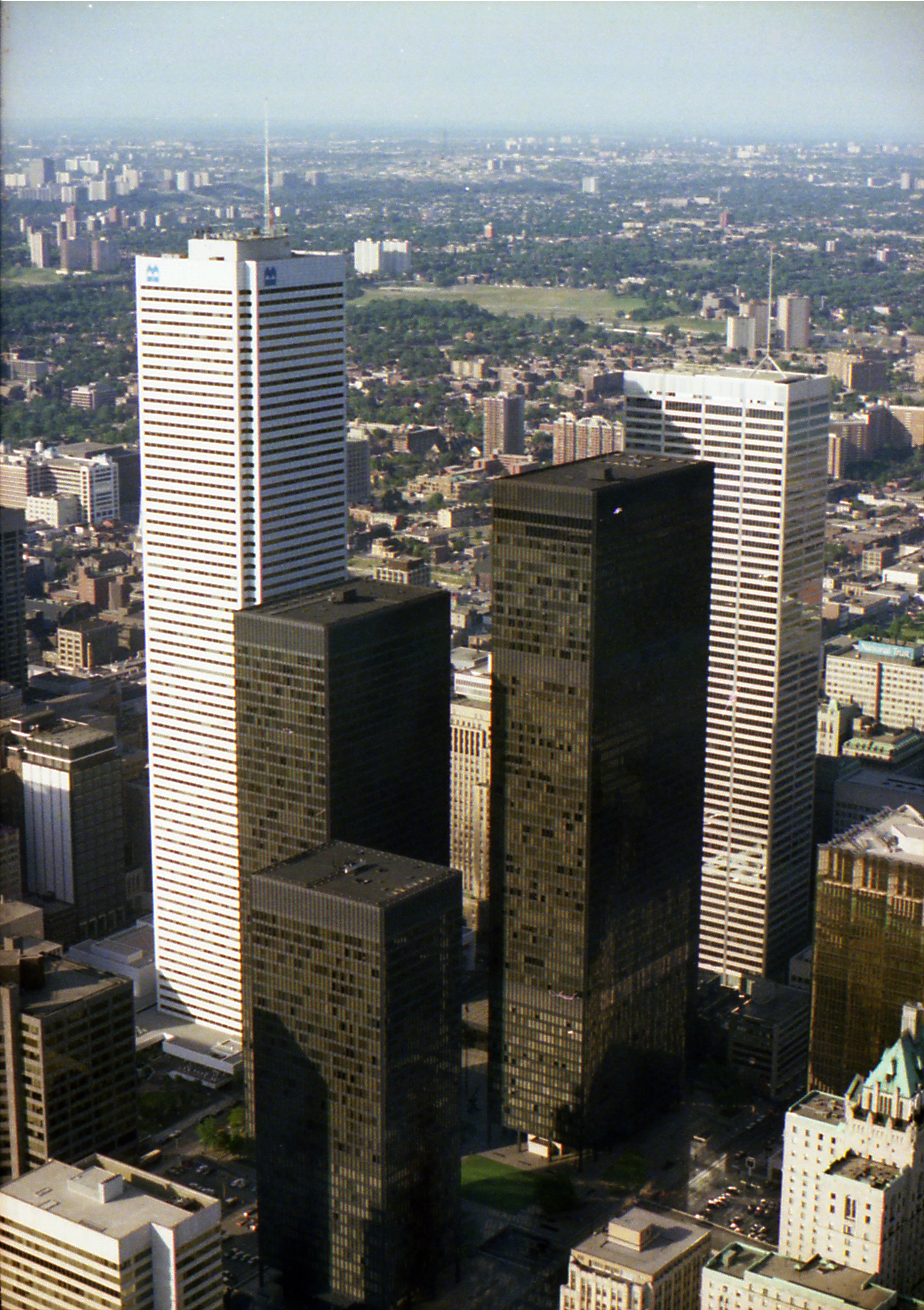 Views and vistas captured from the two levels of viewing rooms on the Canadian National Tower in Toronto Canada in 1978. Camera: Olympus Pen F Half Frame SLR.